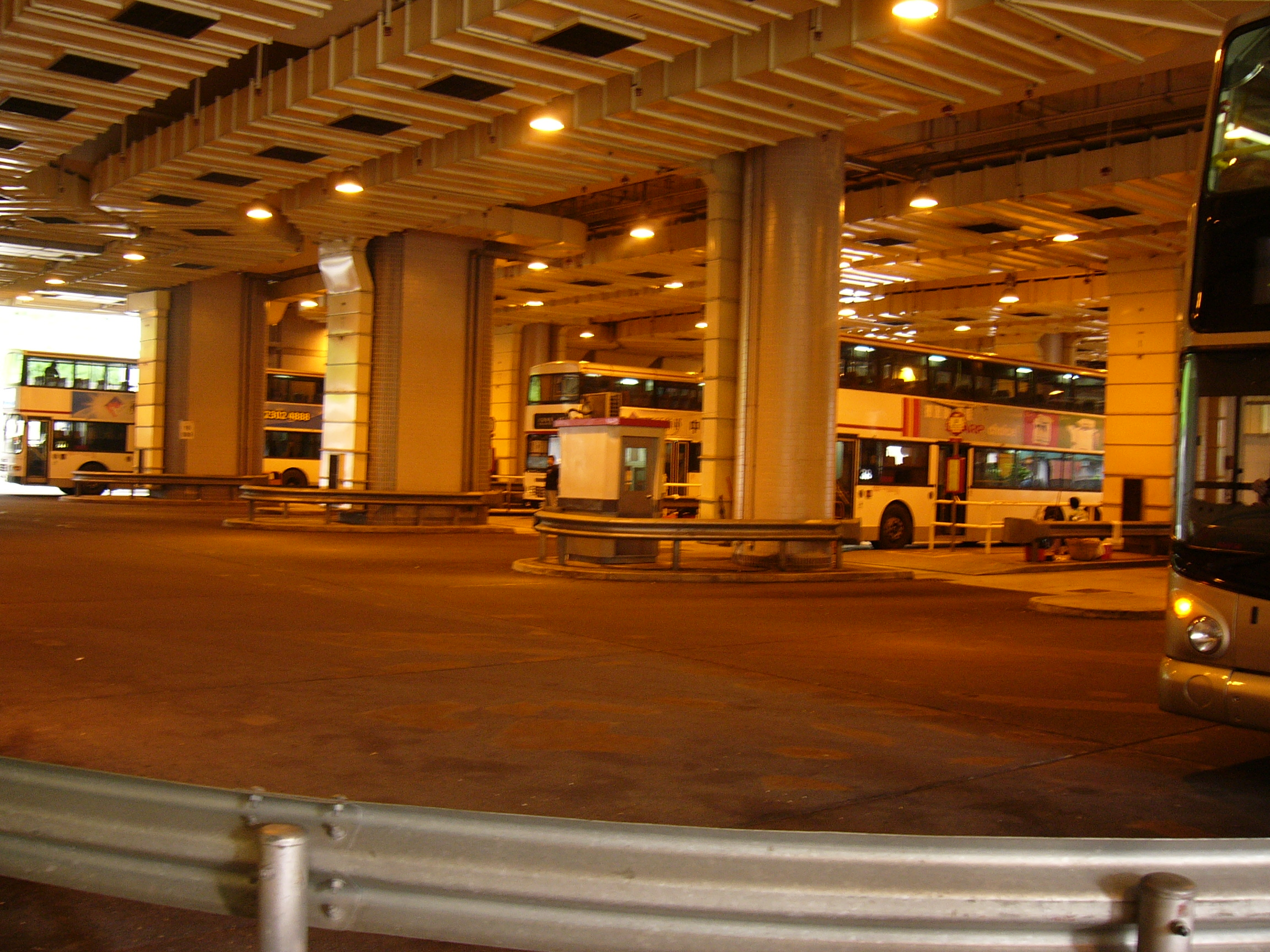 Ping Tin Bus Terminus in Lam Tin, Kowloon, Hong Kong.